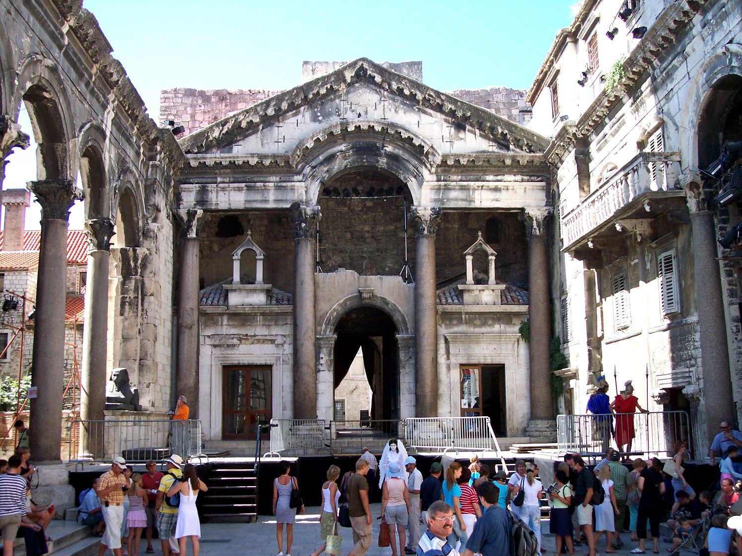 Diocletianus's mausoleum in Split